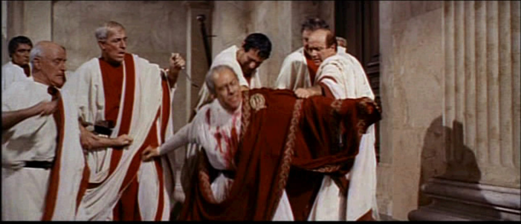 Screenshot from the trailer for the film Cleopatra.